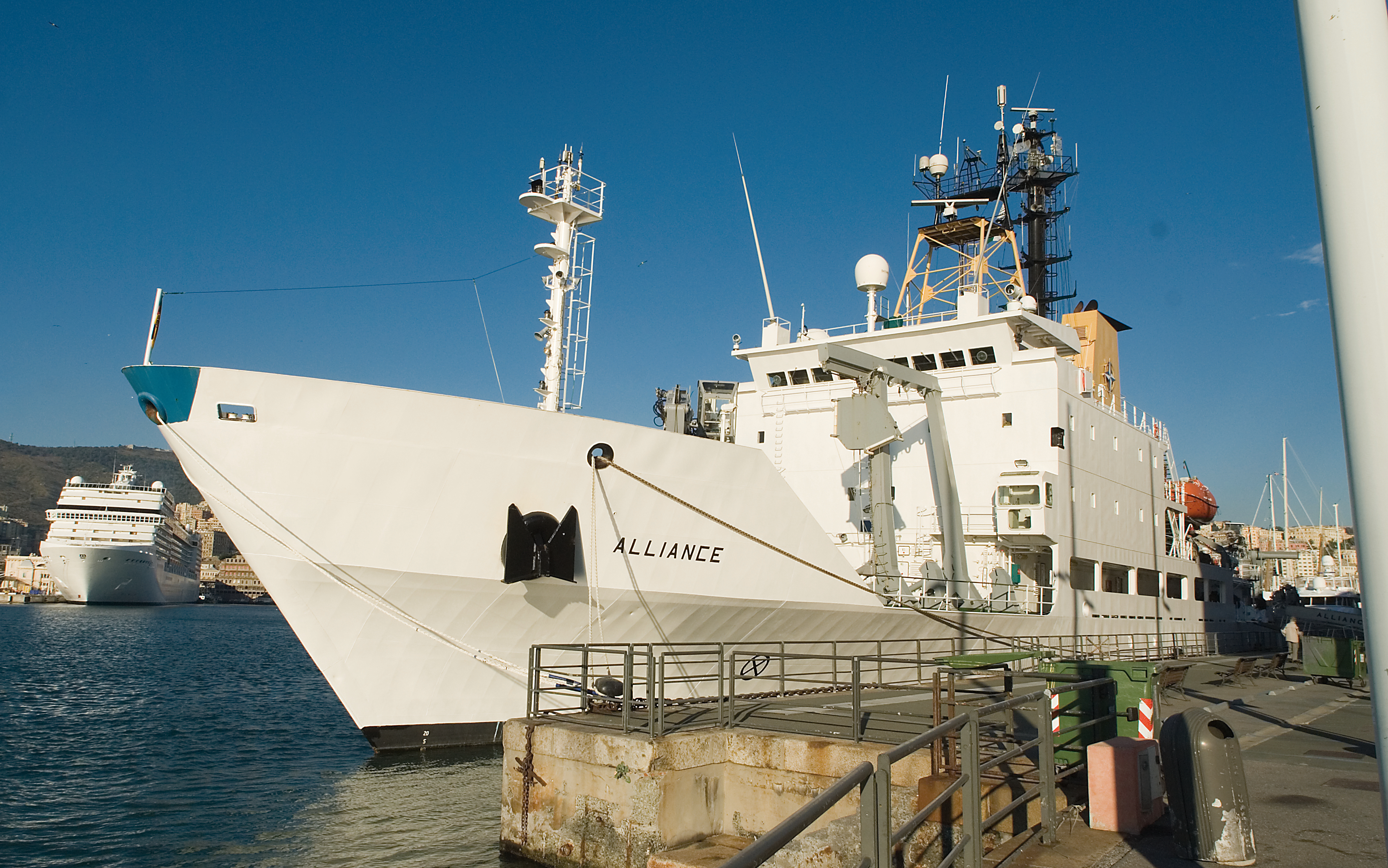 NATO Research vessel Alliance adjacent to the MAST trade-show halls in Genoa (